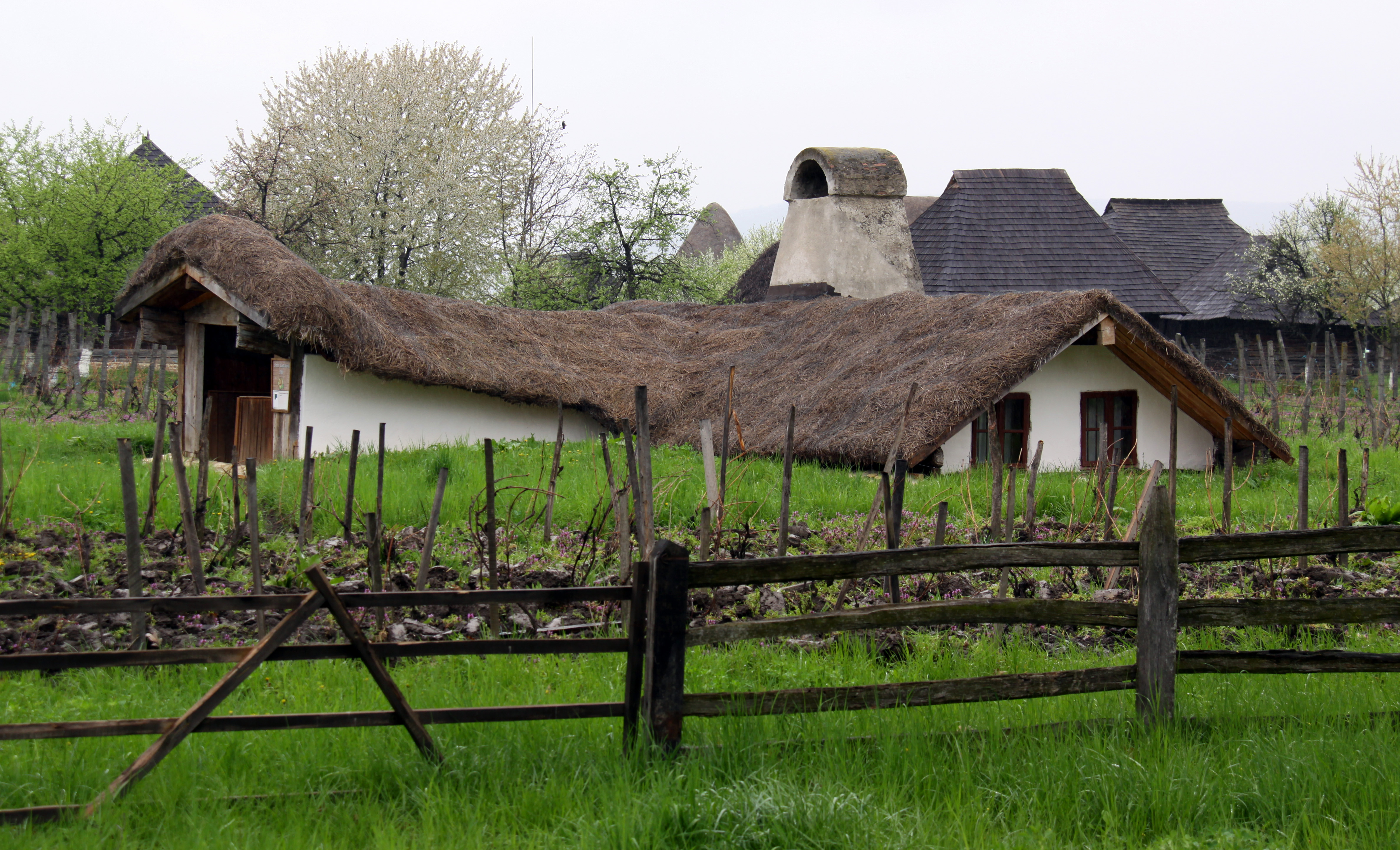 Muzeul Viticulturii şi Pomiculturii din Goleşti, Argeş, Romania: bordei from Castranova-Puţuri.